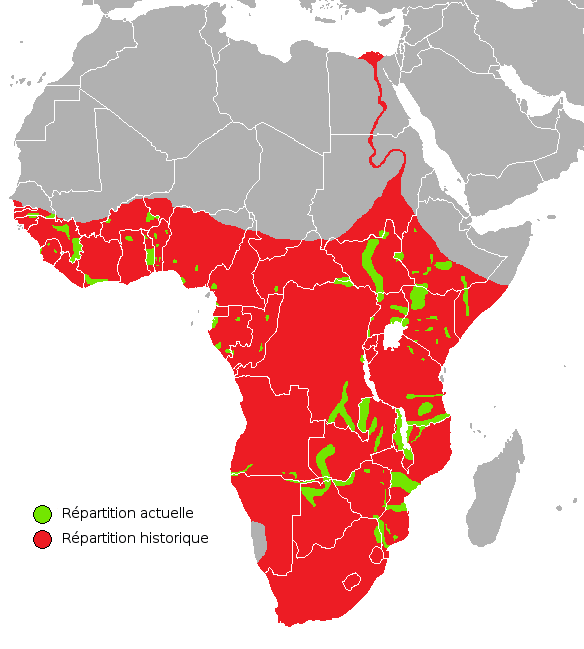 Distribution map hipopotamus amphibius - past and present